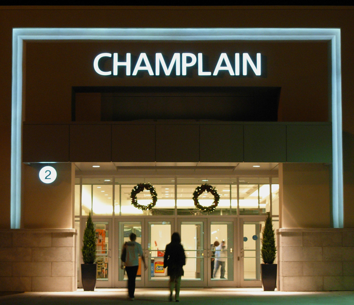 New Entrance of the Champlain Mall